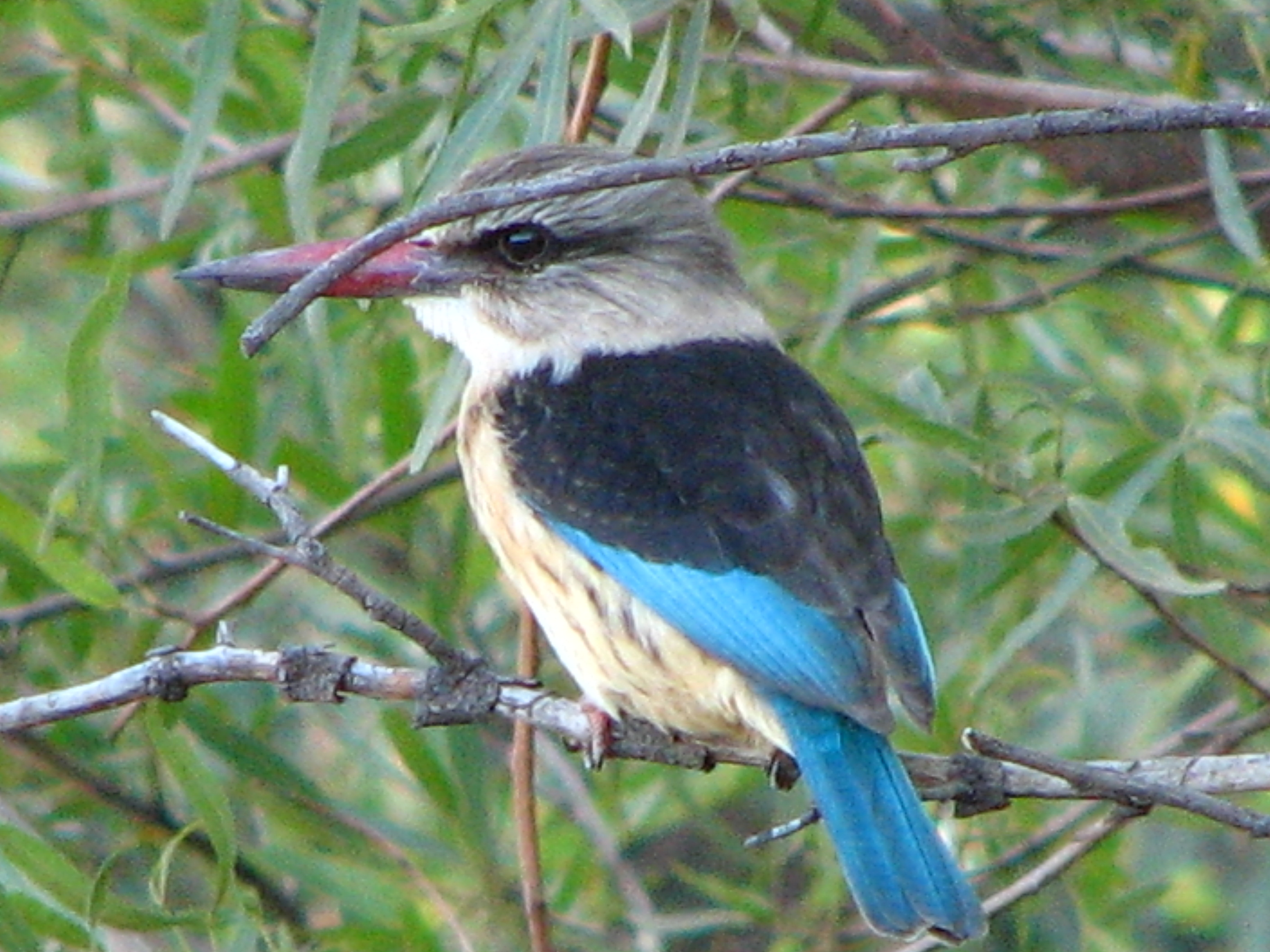 A Brown-hooded Kingfisher at Pilanesberg Game Reserve, South Africa